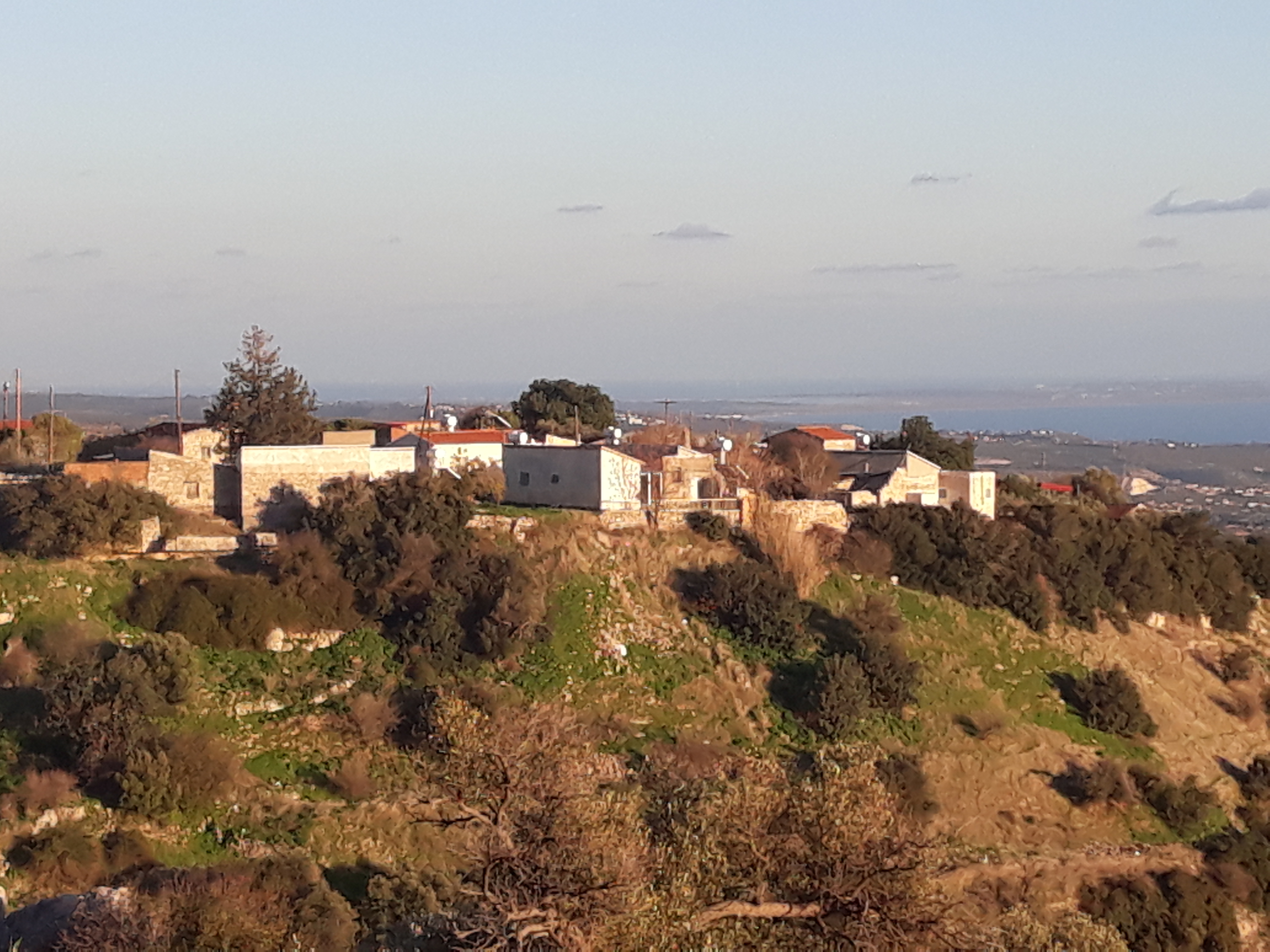 View of Agios Thomas, Cyprus.